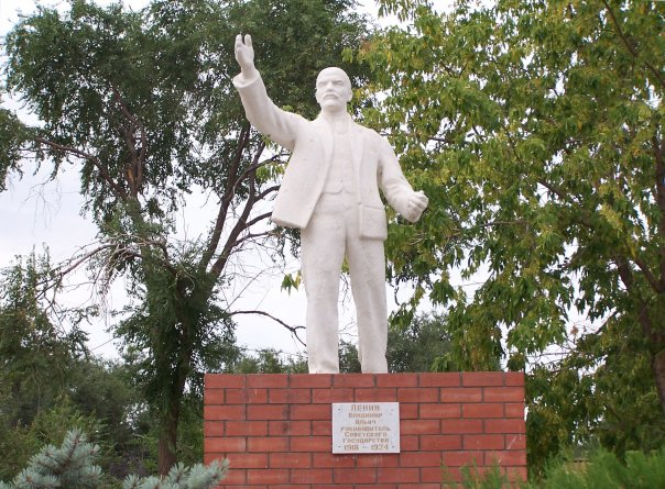 Ленин (Харабали, Астрахань)